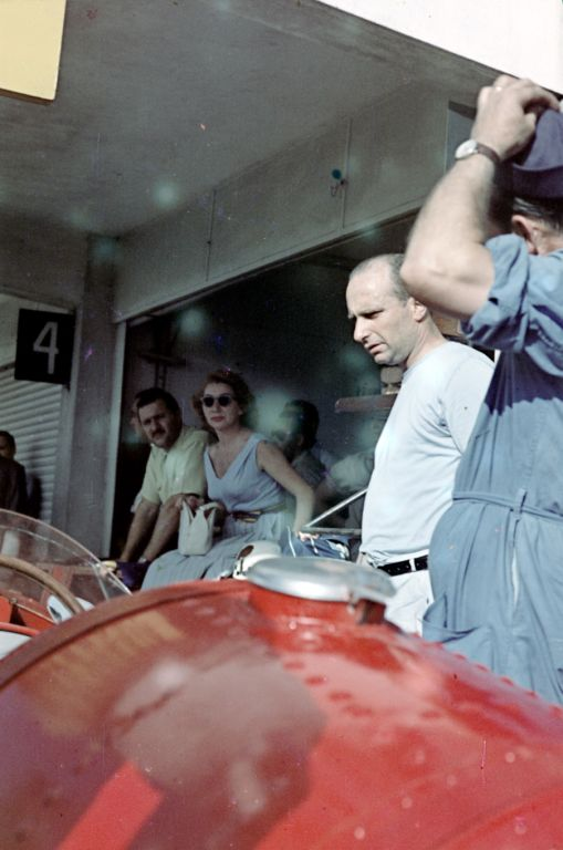 Fangio with spectators in the pits at the 1957 Argentine GP. Photo by Carlos Alberto Navarro.